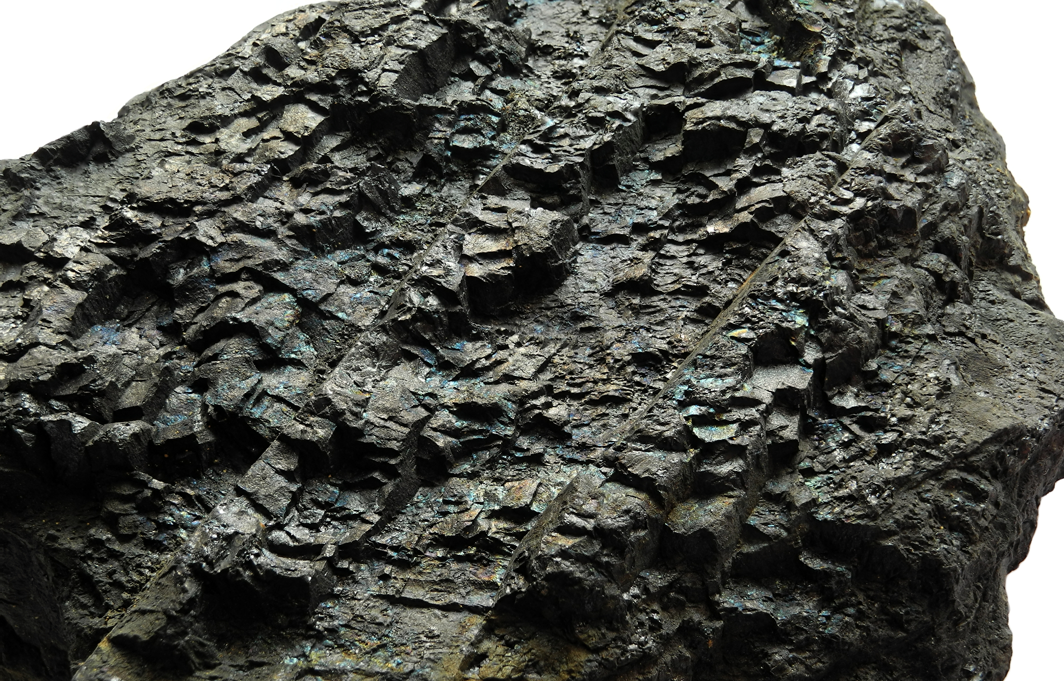 Focus stacking of 12 pictures (using CombineZP). This image was created with CombineZP ( It was created out of 12 single images.). Houille (focus stacking). Image composée de 12 photos assemblées avec CombineZP.